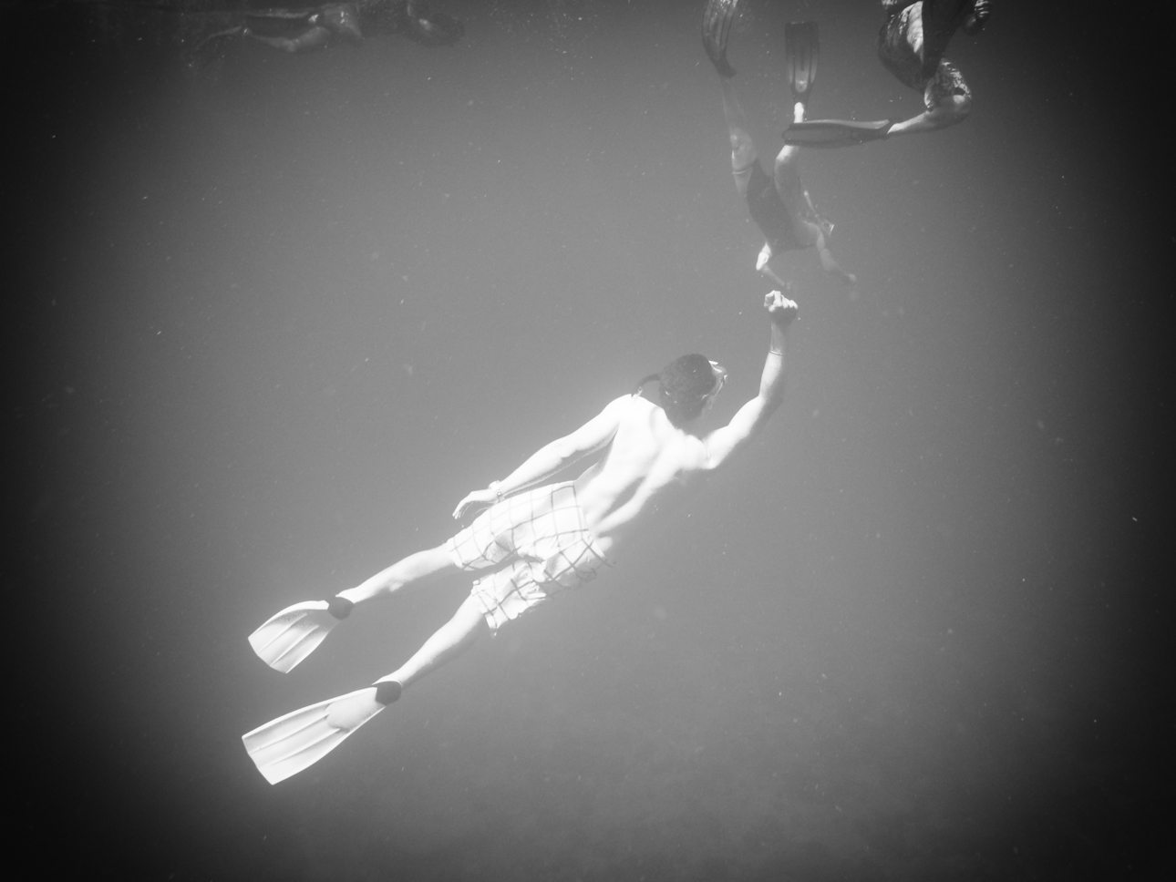 Snorkellers enjoy the warm waters of Ningaloo Reef, Western Australia.